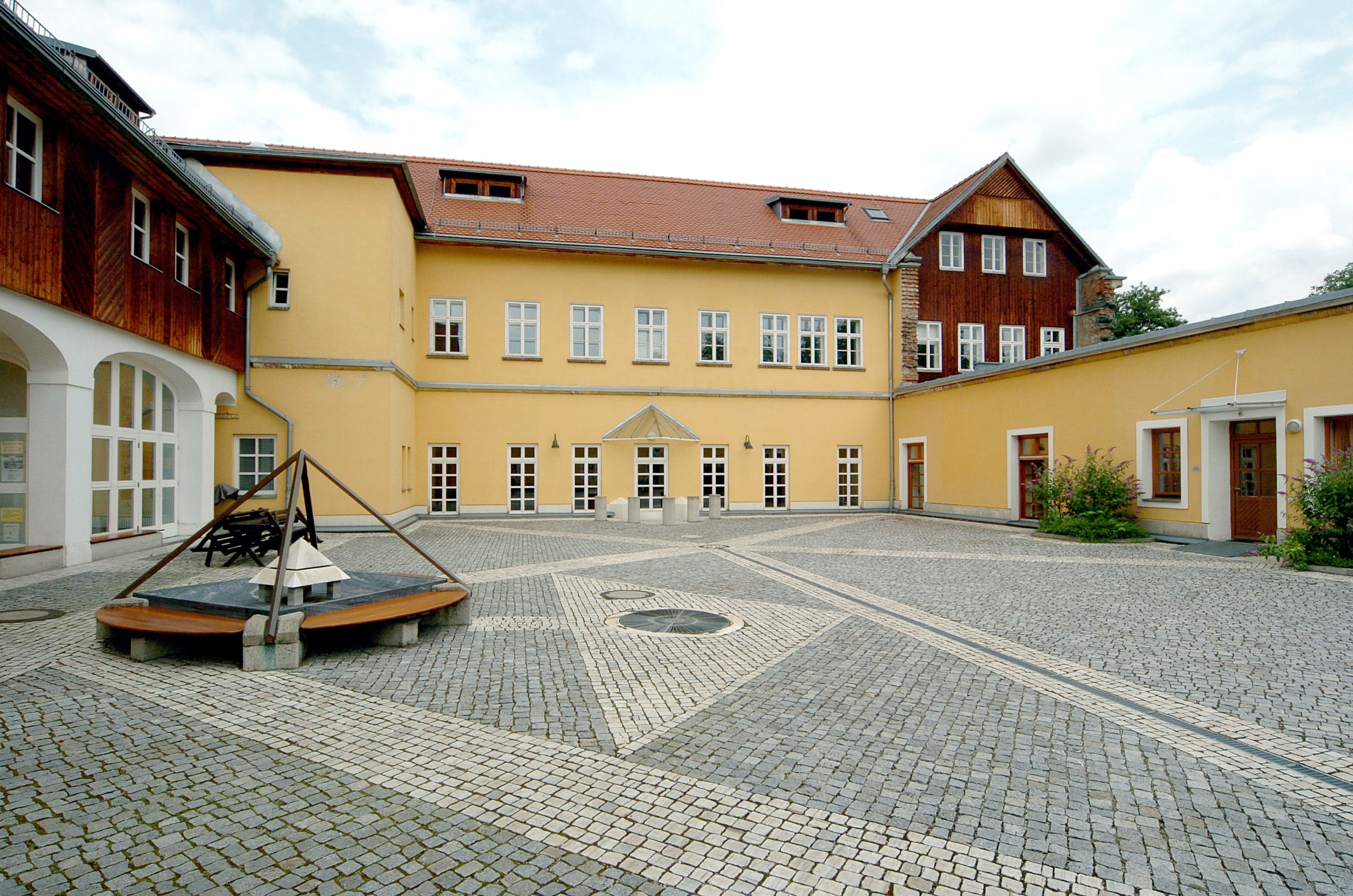 Kindergarten and elementary school "Festung" (master builder: Domenico Venchiarutti) in the Richard-Wagner-Street #20 in the city of Klagenfurt, Carinthia, Austria